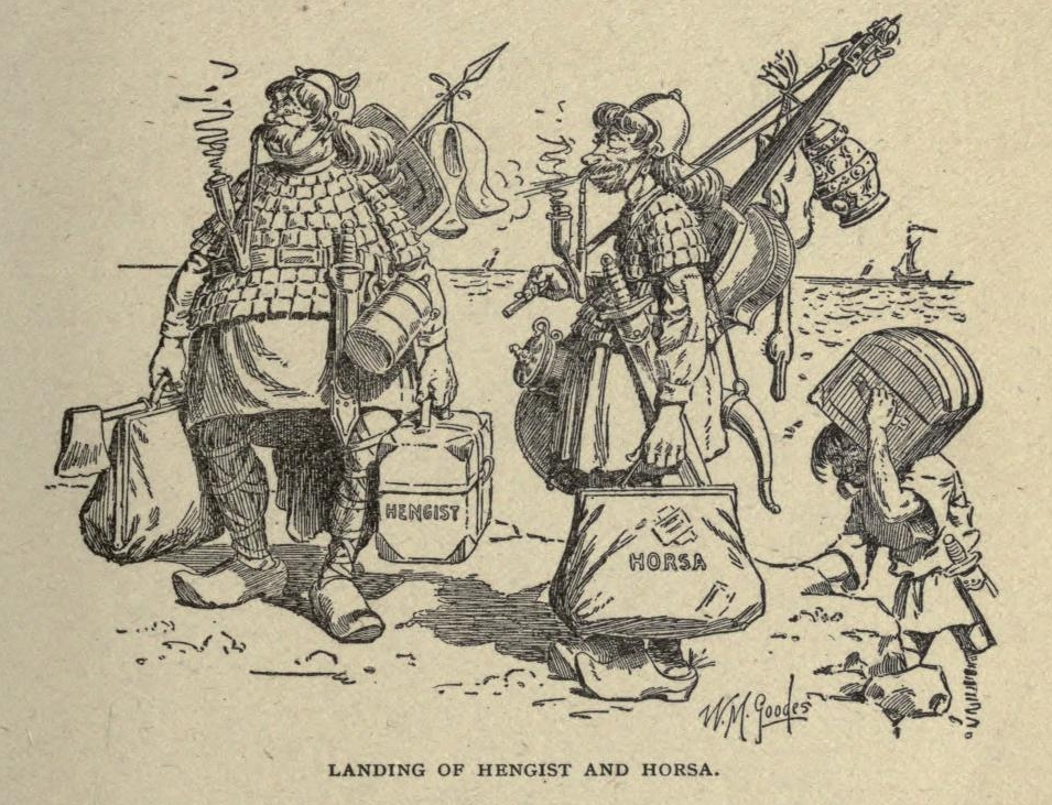 This image comes from Bill Nye's "Comic History of England". The numbers shown are the book page numbers. The text shown is the caption beneath the image. Follow the image to the link which leads to the full book.